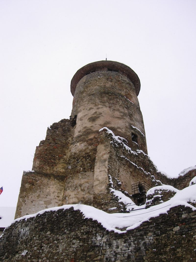 Look on the main tower of Ľubovňa Castle